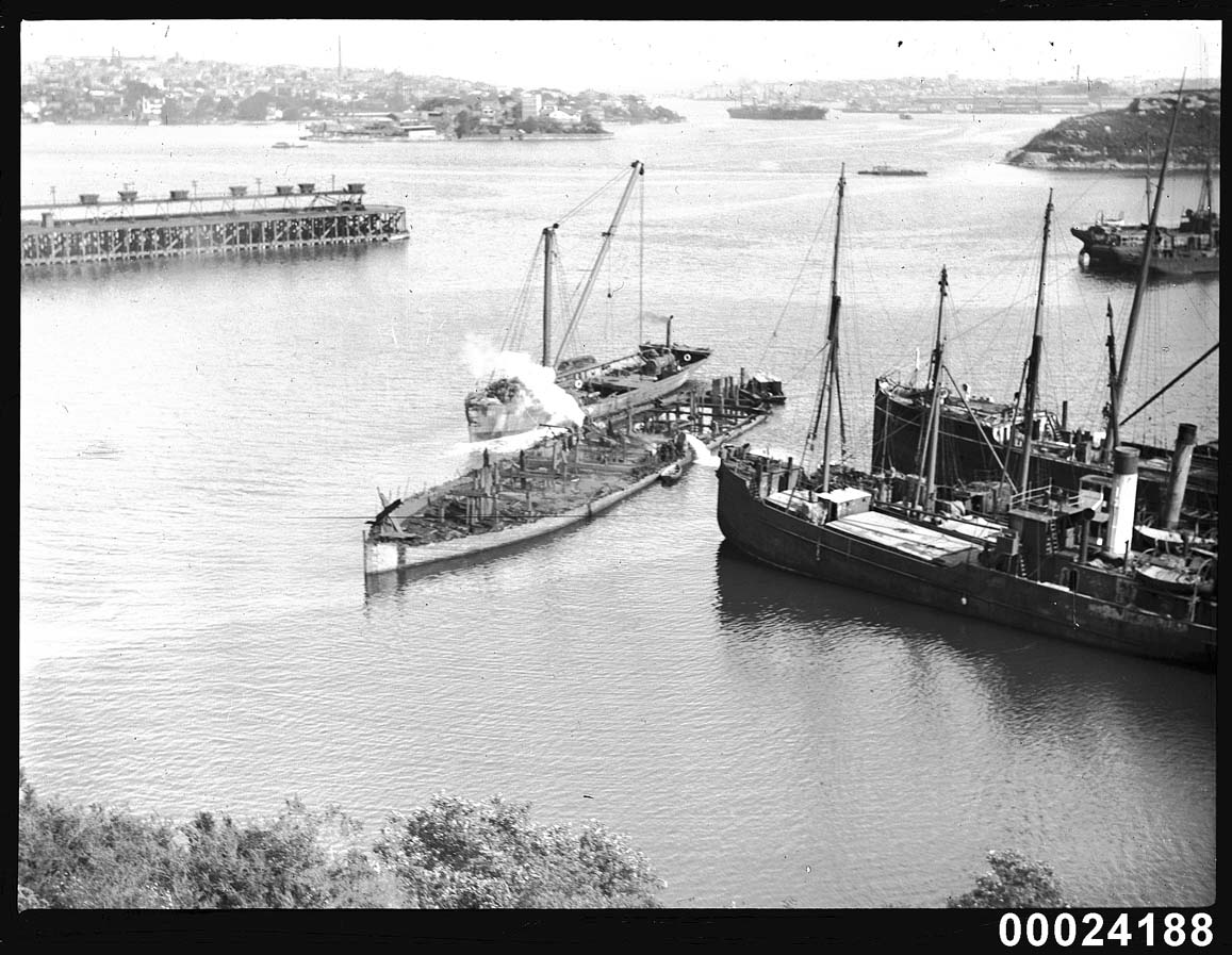 This photograph depicts a partially submerged hull in Balls Head Bay attended at the stern by a salvage vessel. To the left is the Coal Loader in Waverton. This photo is part of the Australian National Maritime Museum’s Samuel J. Hood Studio collection. Sam Hood (1872-1953) was a Sydney photographer with a passion for ships. His 60-year career spanned the romantic age of sail and two world wars. The photos in the collection were taken mainly in Sydney and Newcastle during the first half of the 20th century. The ANMM undertakes research and accepts public comments that enhance the information we hold about images in our collection. This record has been updated accordingly. Photographer: Samuel J. Hood Studio Collection Object no. 00024188